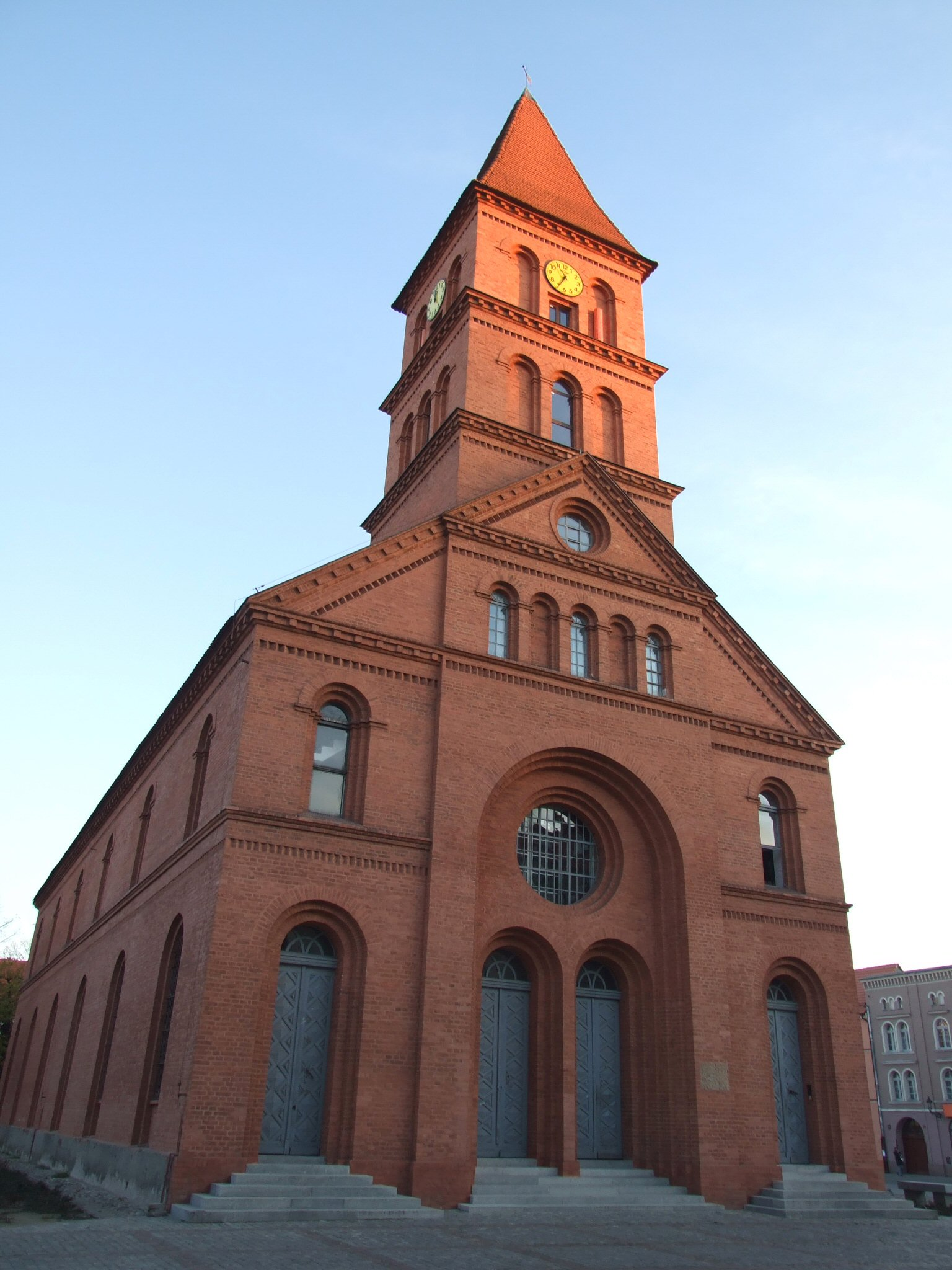 Church of the Holy Trinity in Toruń.